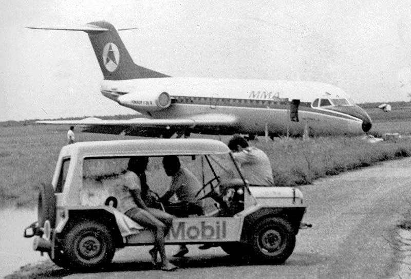 Fokker F-28 VH-FKA after overun incident at Broome Airport 1974